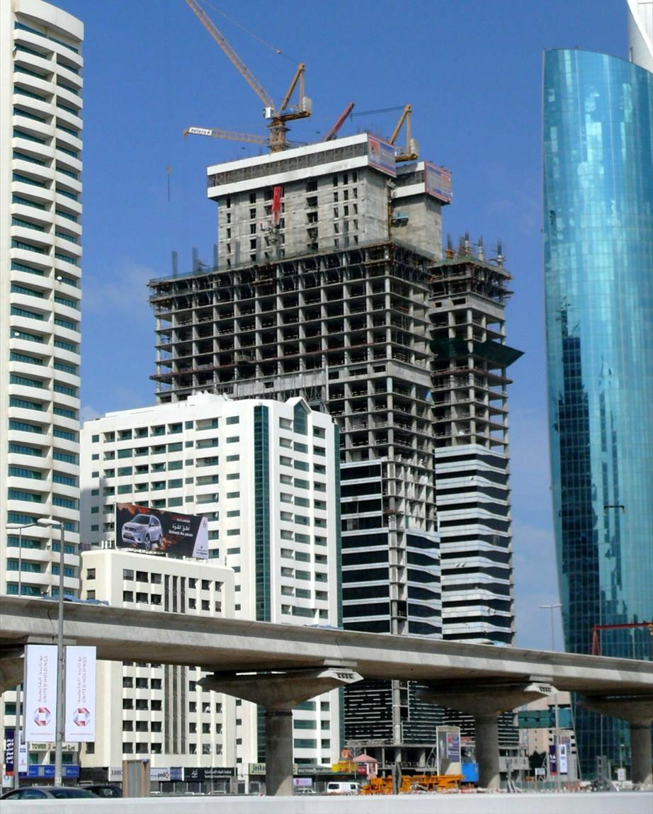 This is a photo showing the construction of Acico Twin Towers, located along Sheikh Zayed Road|Sheikh Zayed Road in Dubai, United Arab Emirates on 25 January 2008.